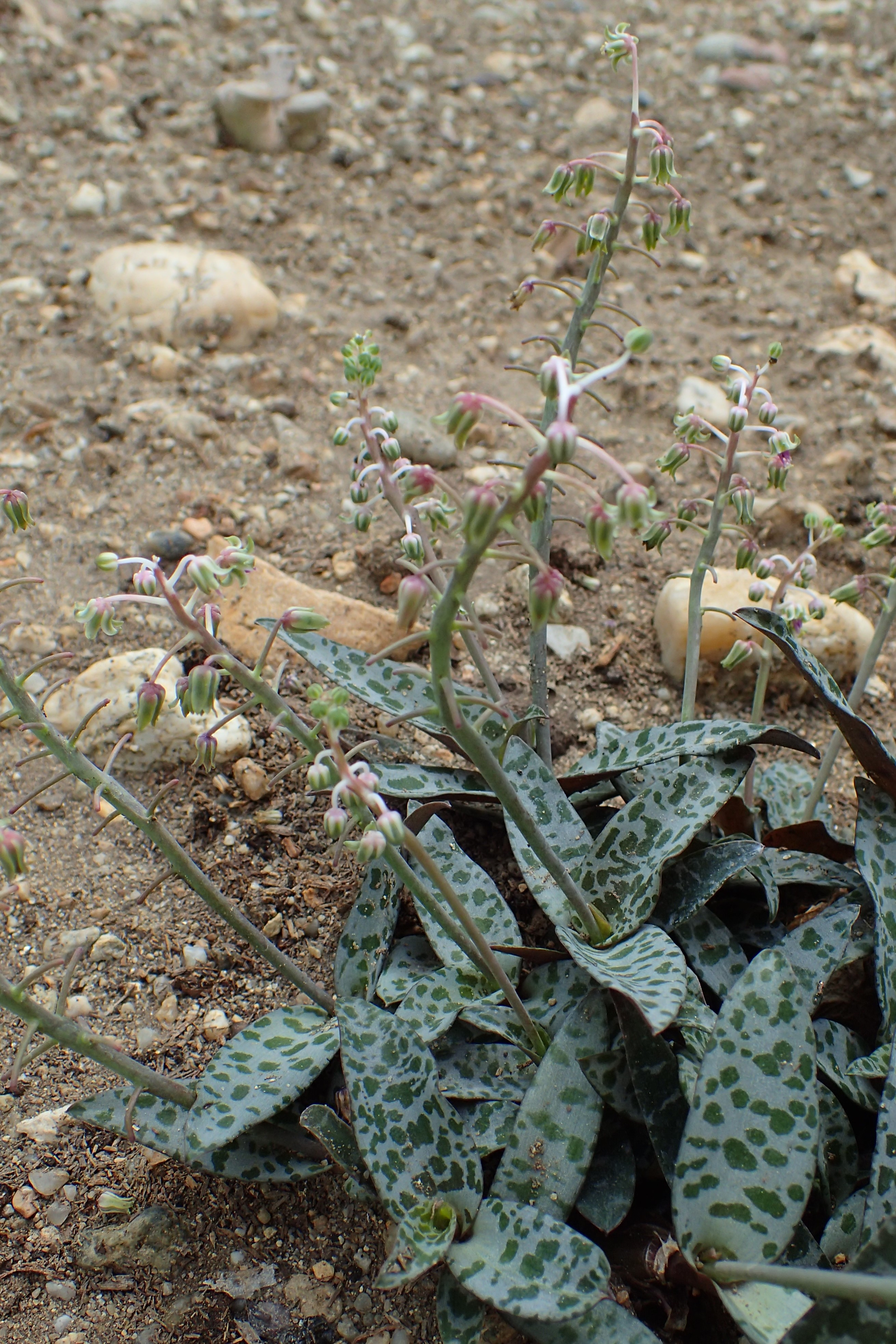 Ledebouria socialis in Botanical Garden of the University of Debrecen